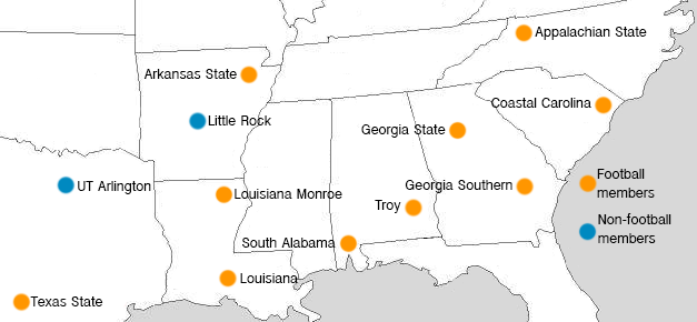 Map of member institutes of the Sun Belt Conference in 2016 after the addition of full member Coastal Carolina